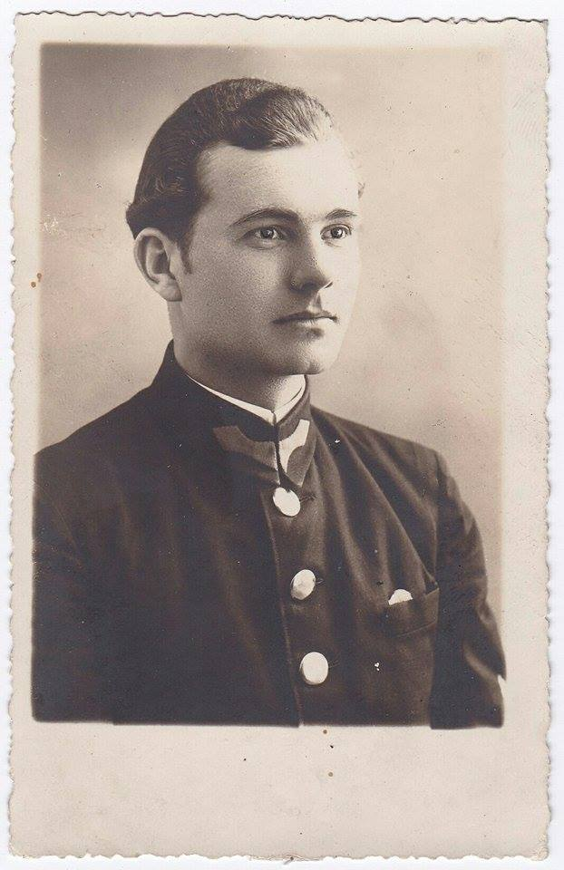 Alexandru Bardieru